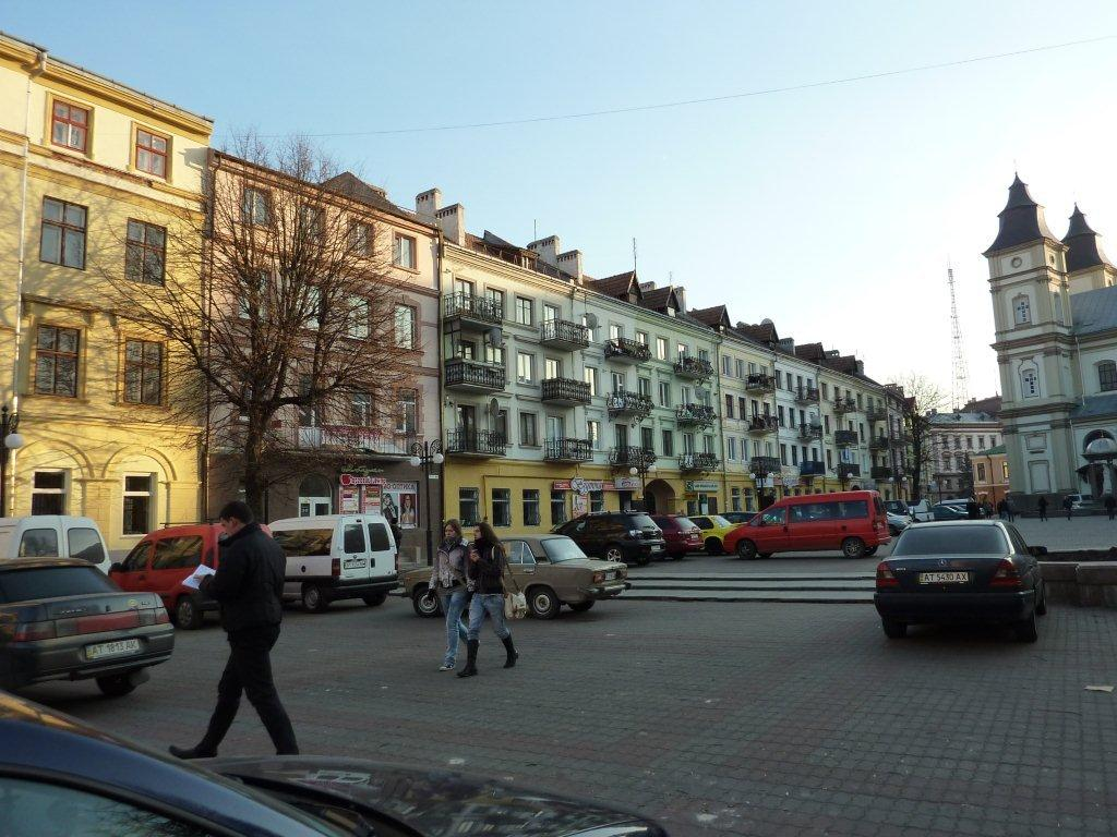 Sheptytsky Square (named after Andrey Sheptytsky) in Ivano-Frankivsk, Ukraine.